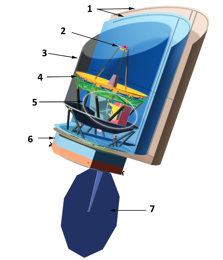 Origins Space Telescope diagram with labels. 1 : Sun shields - 2 : Secondary mirror - 3 : Cold shield - 4 : Primary mirror - 5 : Science instrument volume - 6 : Spacecraft - 7 : Solar array